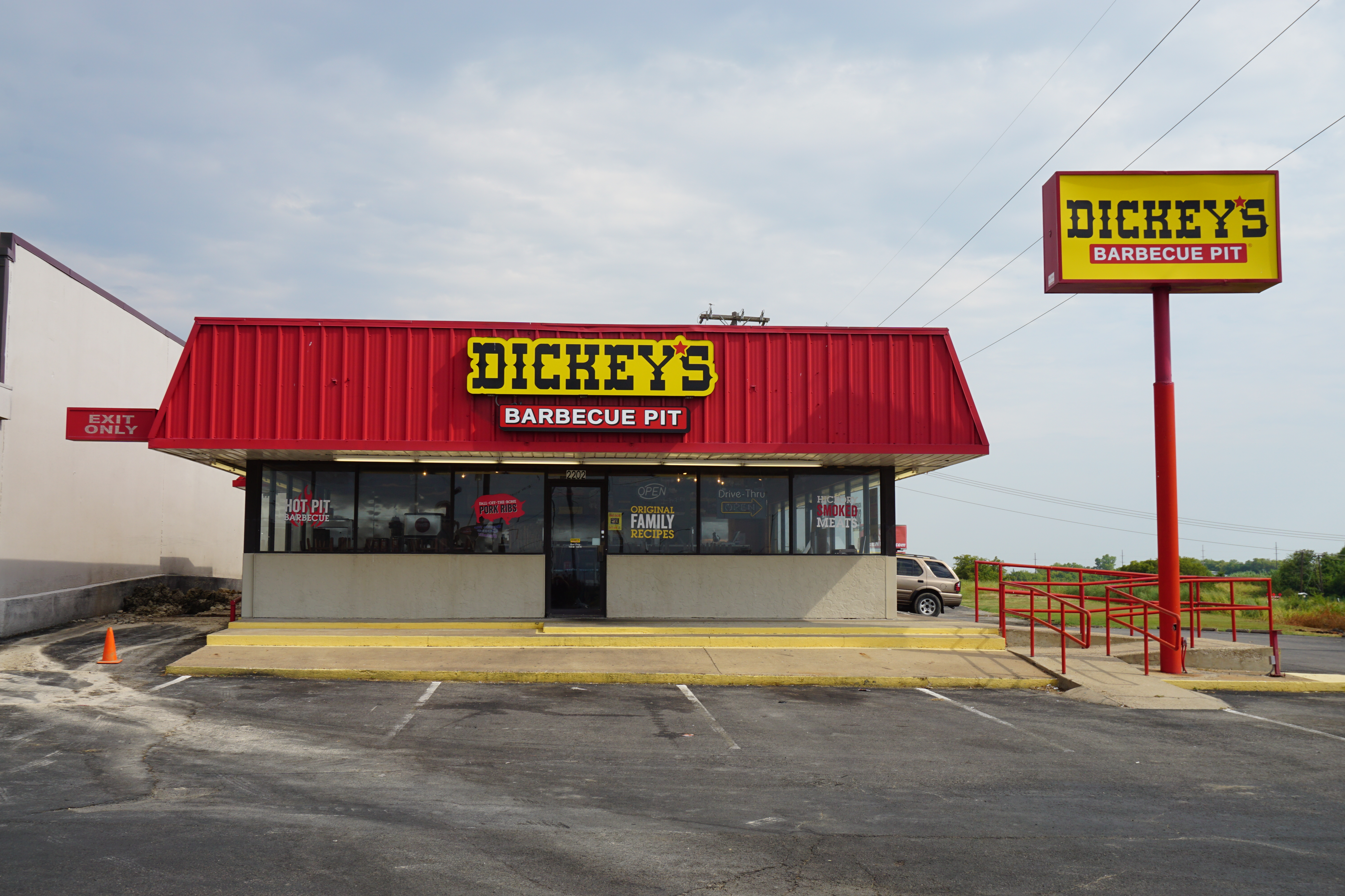 Dickey's Barbecue Pit in Commerce, Texas (United States).